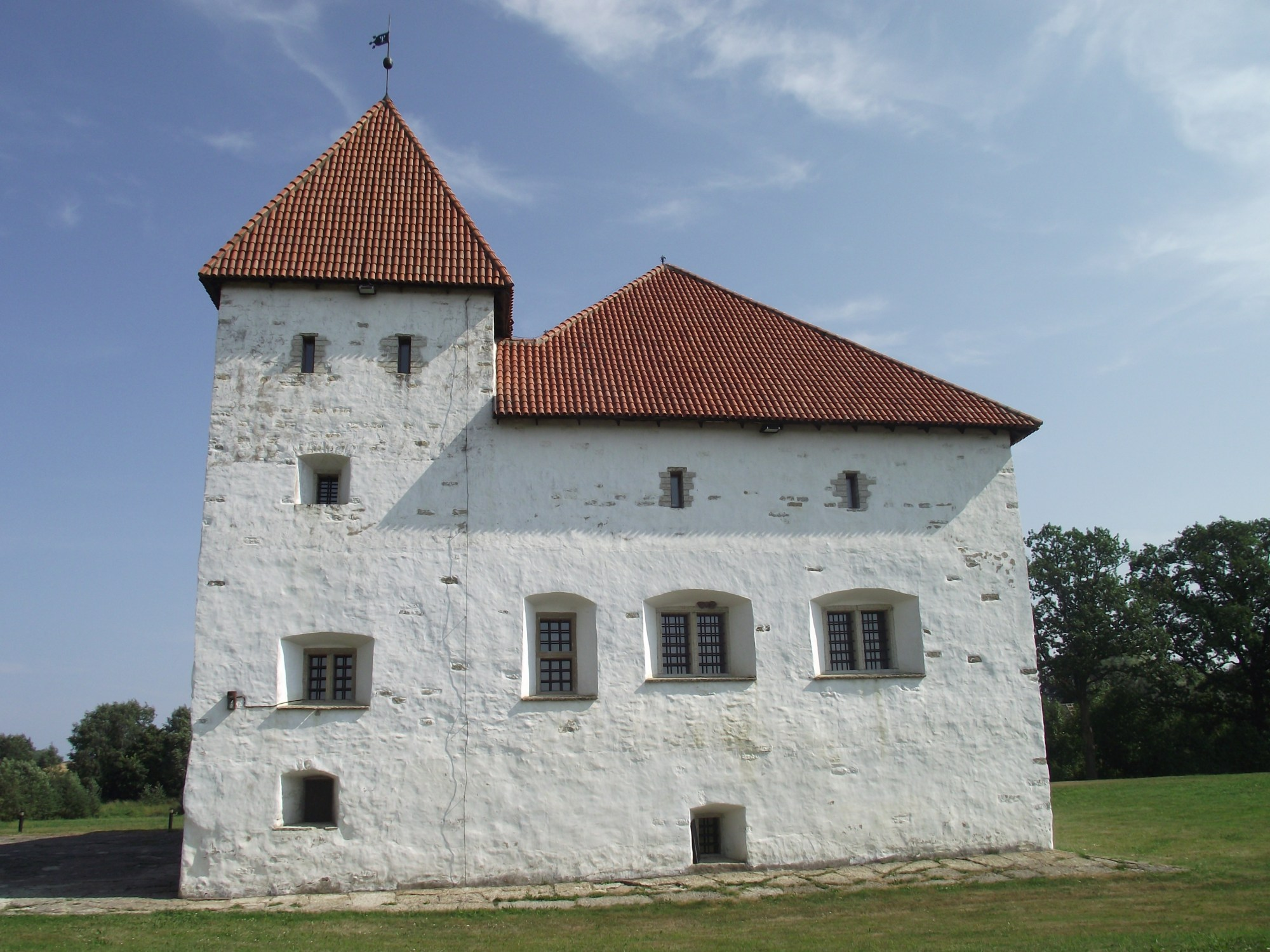 Purtse vassal castle.